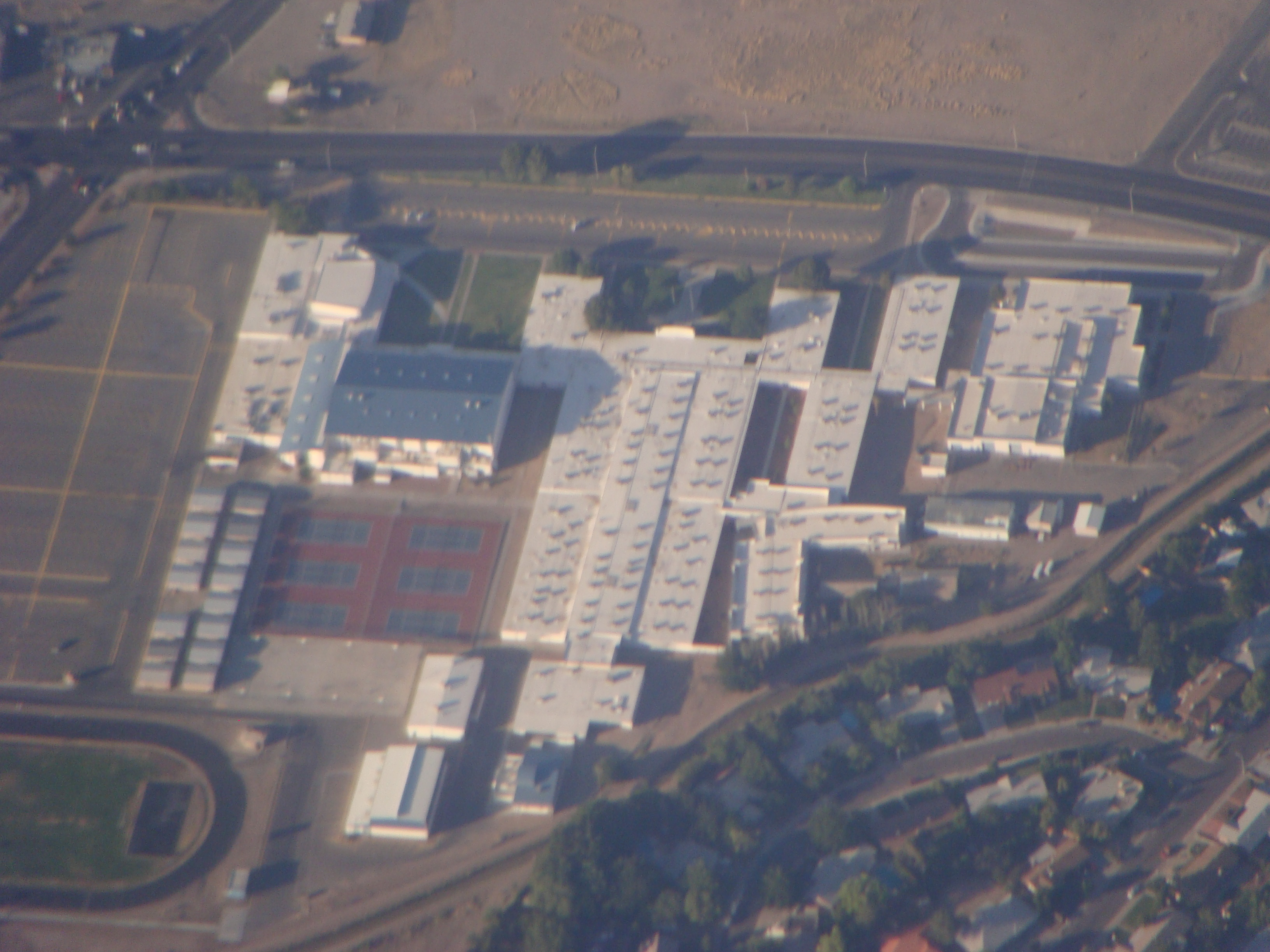 View of the LCHS building onboard a Denver--El Paso flight.